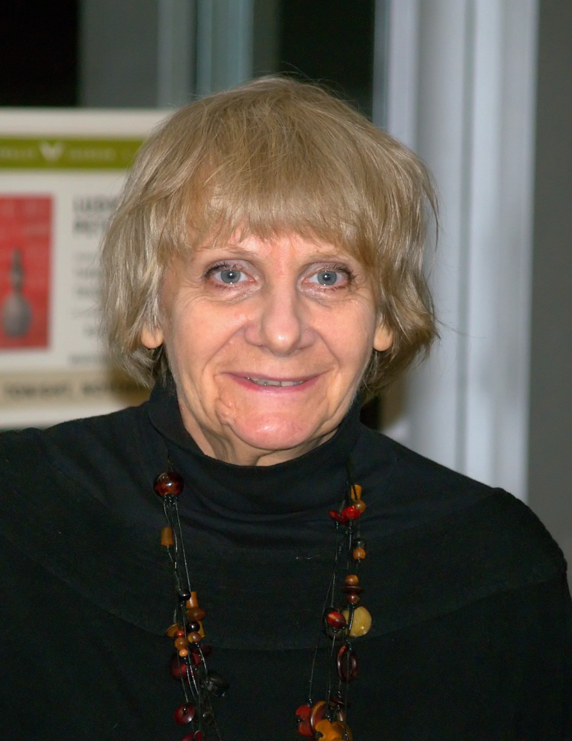 Russian author Ludmilla Petrushevskaya at McNally Jackson book store in New York City.